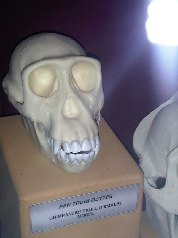 Common chimpanzee (Pan troglodytes) female, skull model; at the National Museum of Natural History, Vilhena Palace, Republic of Malta.